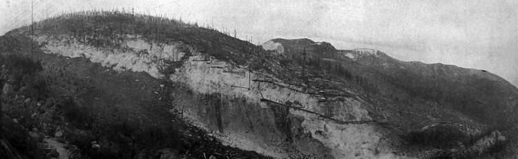 1906 approx.,west side of Yule Creek Valley, south of Marble Colorado. On the mountain side is the developing Yule Marble quarry of the Colorado Yule Marble Company, at 9,500 feet above sea level. A 4,500 foot seam of white marble is visible